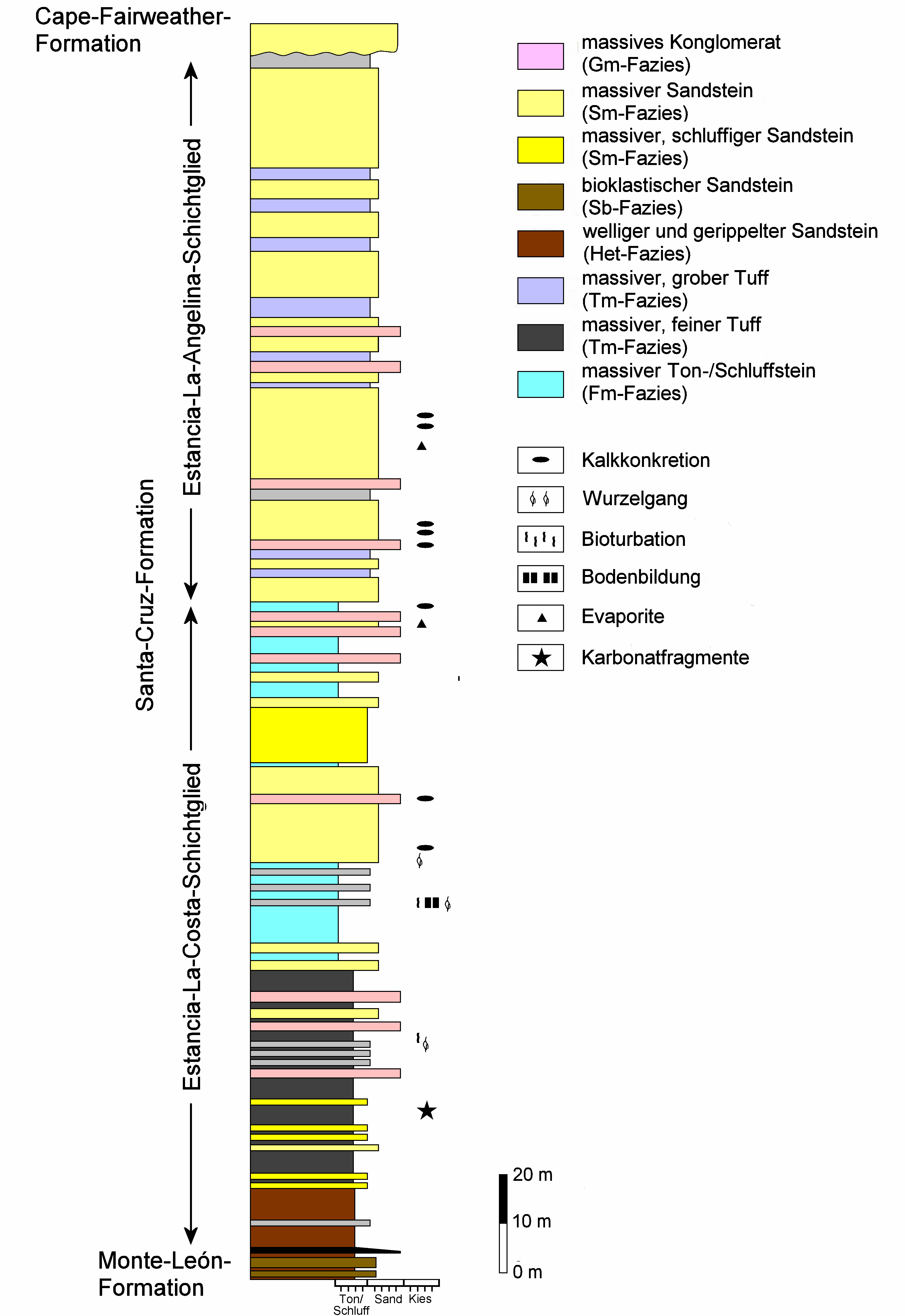 Geological section of Santa Cruz Formation on the Atlantic coast in Southern Argentenia, drawn after Sergio D. Matheos and M. Sol Raigenborn: Sedimentology and paleoenvironment of the Santa Cruz Formation. In: Sergio F. Vizcaíno, Richard F. Kay and M. Susana Bargo (eds.): Early Miocene paleobiology in Patagonia: High-latitude paleocommunities of the Santa Cruz Formation. Cambridge University Press, New York, 2012, pp. 59–82 (p. 63)